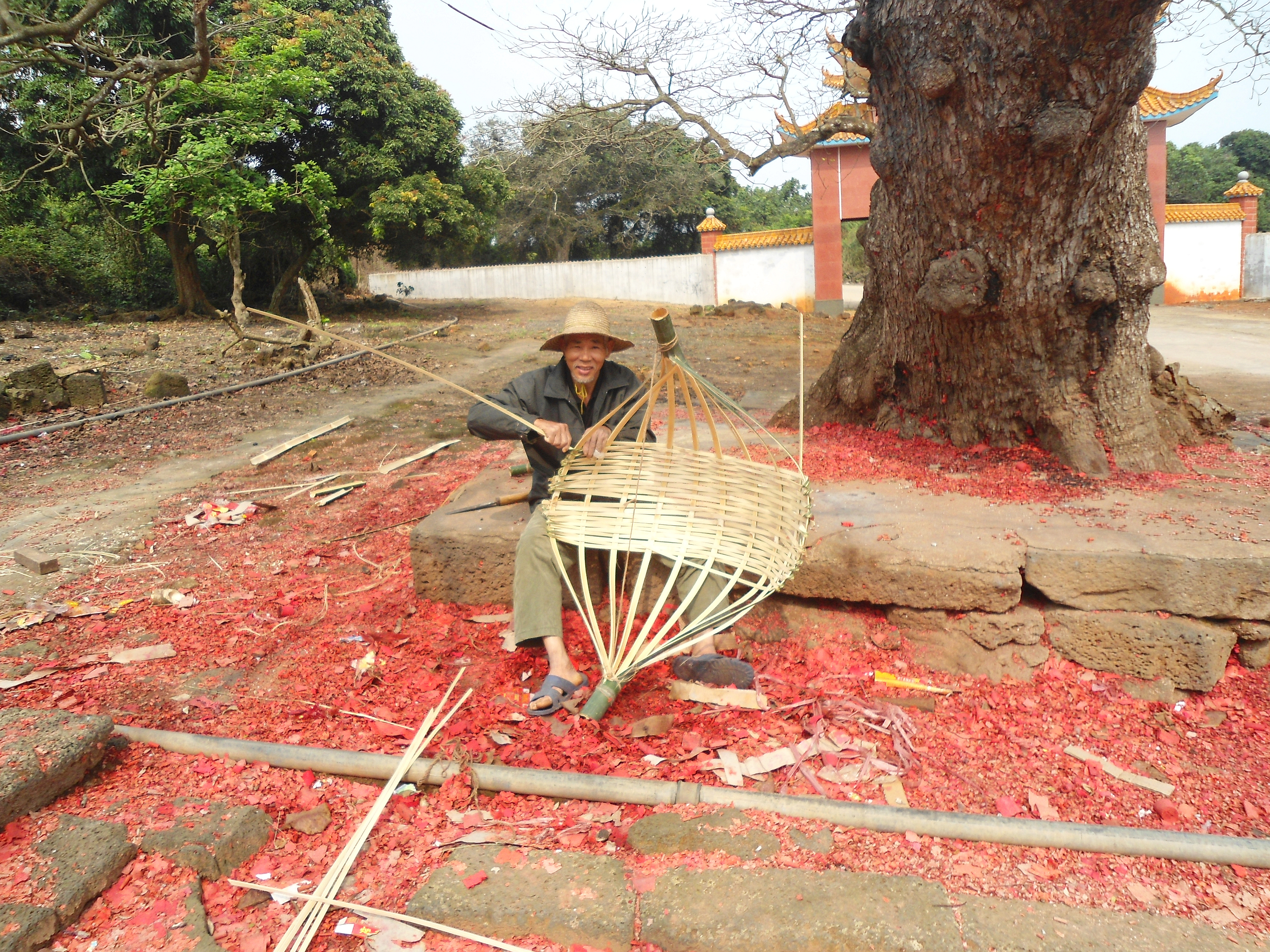 Basket making in Hainan, China. The material is bamboo strips. The man spoke no Mandarin at all, so I couldn't ask him questions.